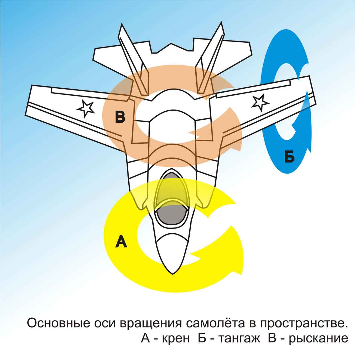 Names of rotation axis of aeroplanes